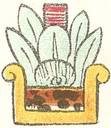 The Aztec day sign acatl (reed).